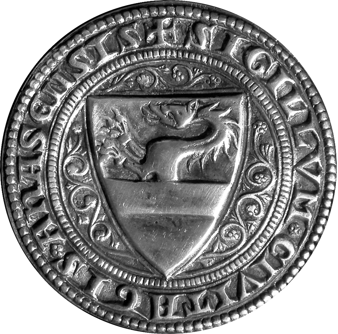 Seal of the town Enns; 15th century; Photo of an impression (electroforming, silver); 94mm diameter; Labels: Sigillum Civitatis Anasensis